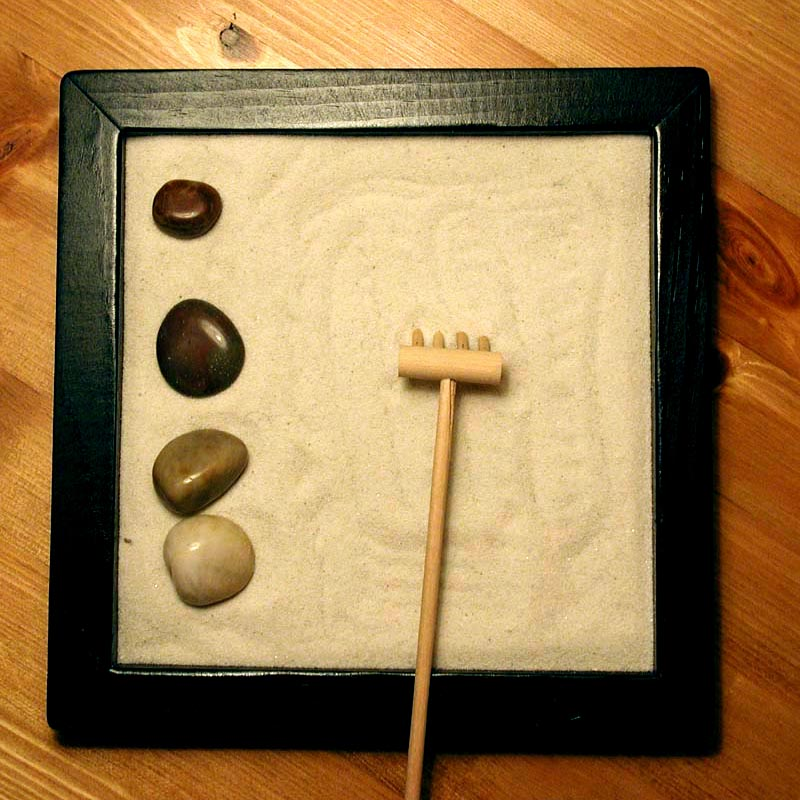 Picture of a Zen garden. Measures approximately 8 inches on each side. Picture taken on March 21, 2004 Released under the GFDL